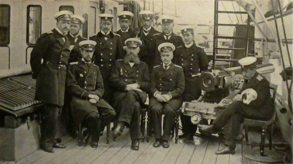 Commander A.G. Bootakoff and the officers